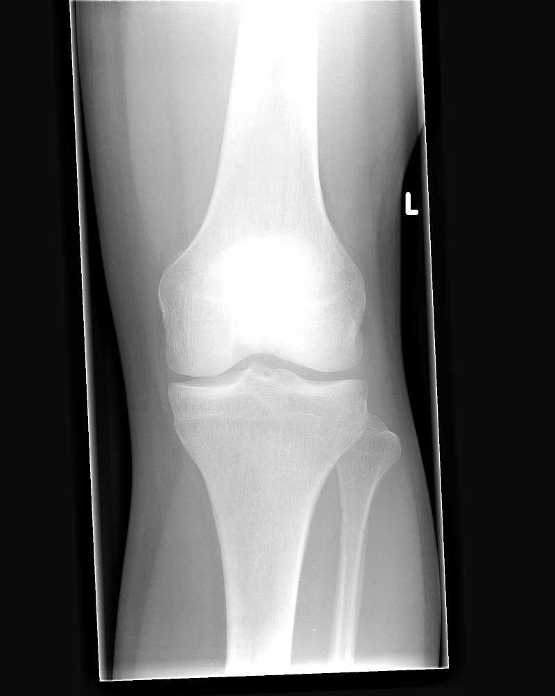 Front side of the left knee.